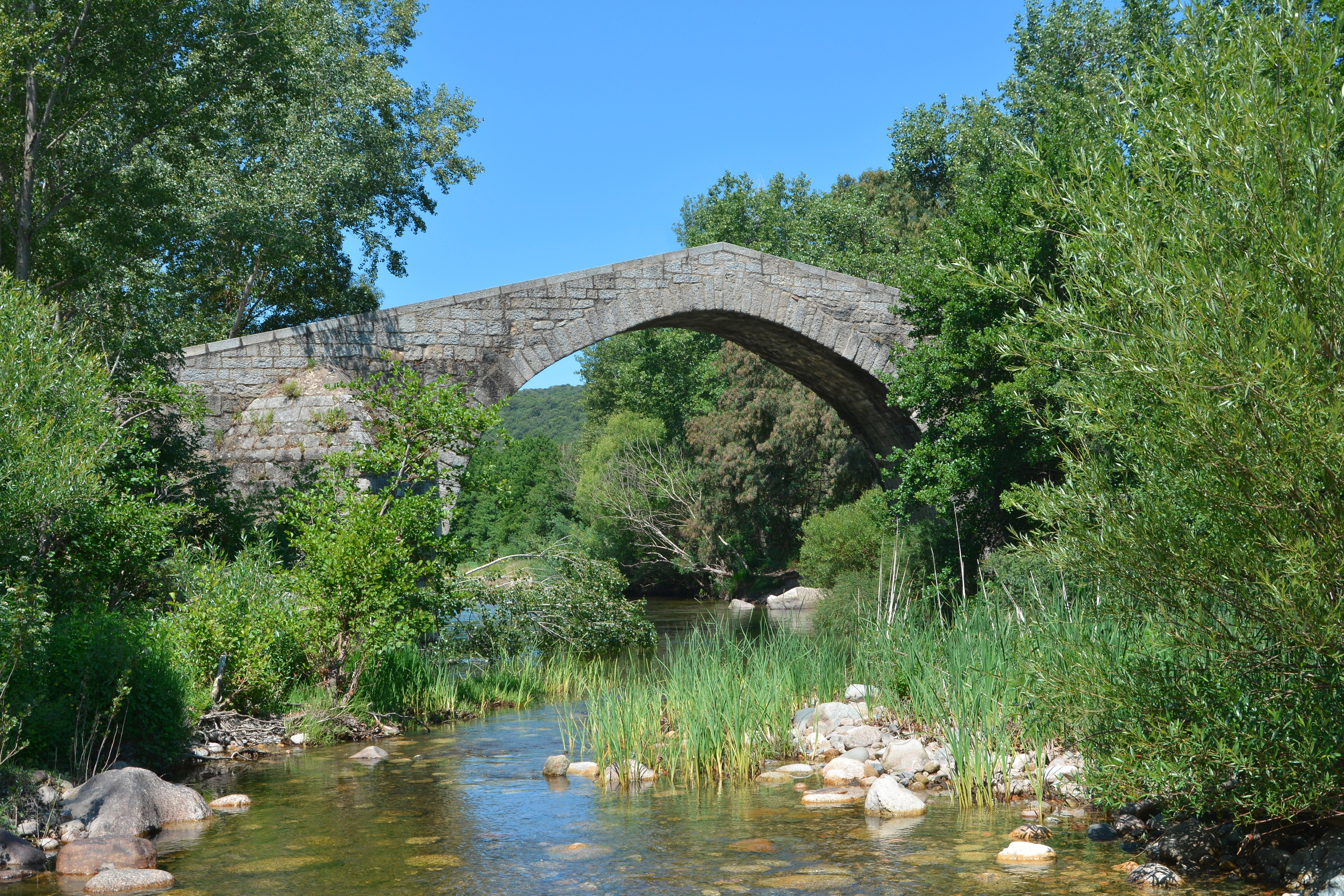 The bridge Spin’a Cavallu (horse's back) over the Rizzanese river was built during the reign of Genoa in the 13th century. It is connecting the communities of Arbellara and Sartène (Corsica).